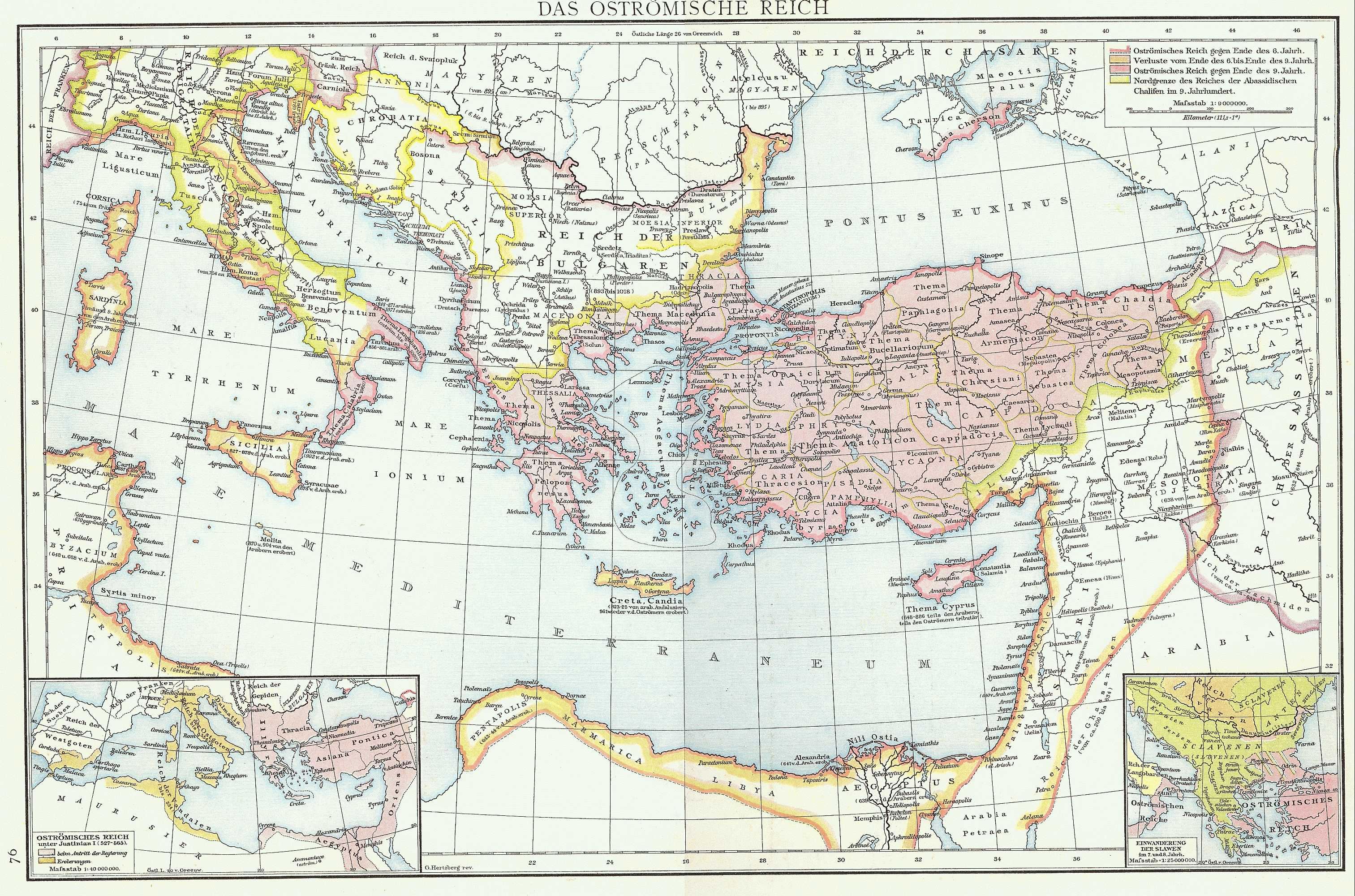 Map of the Byzantine Empire taken from G. Droysens Allgemeiner Historischer Handatlas, Verlag Velhagen und Klasing 1886